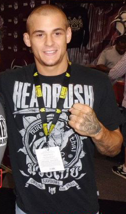 Mixed Martial Arts fighter Dustin Poirier